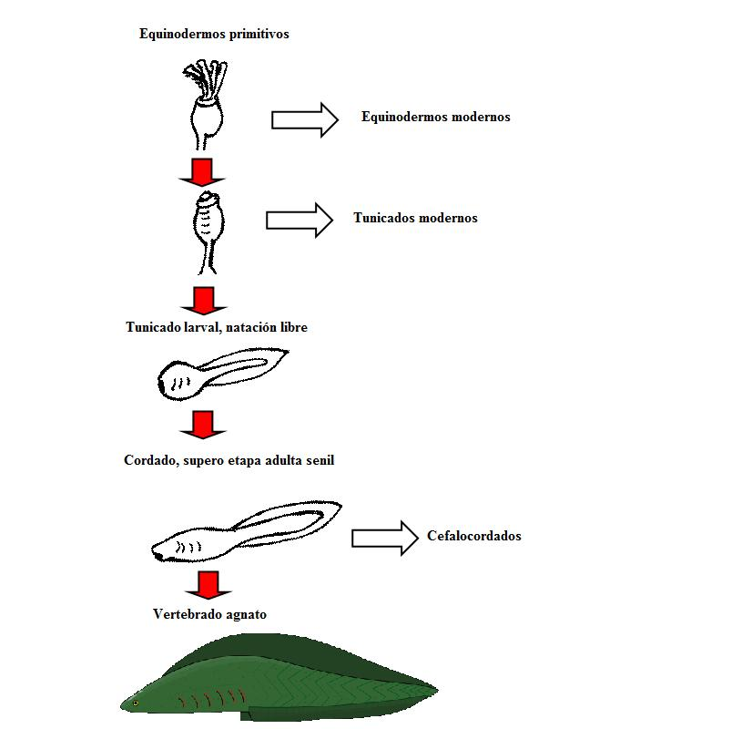 Evolución de los cordados